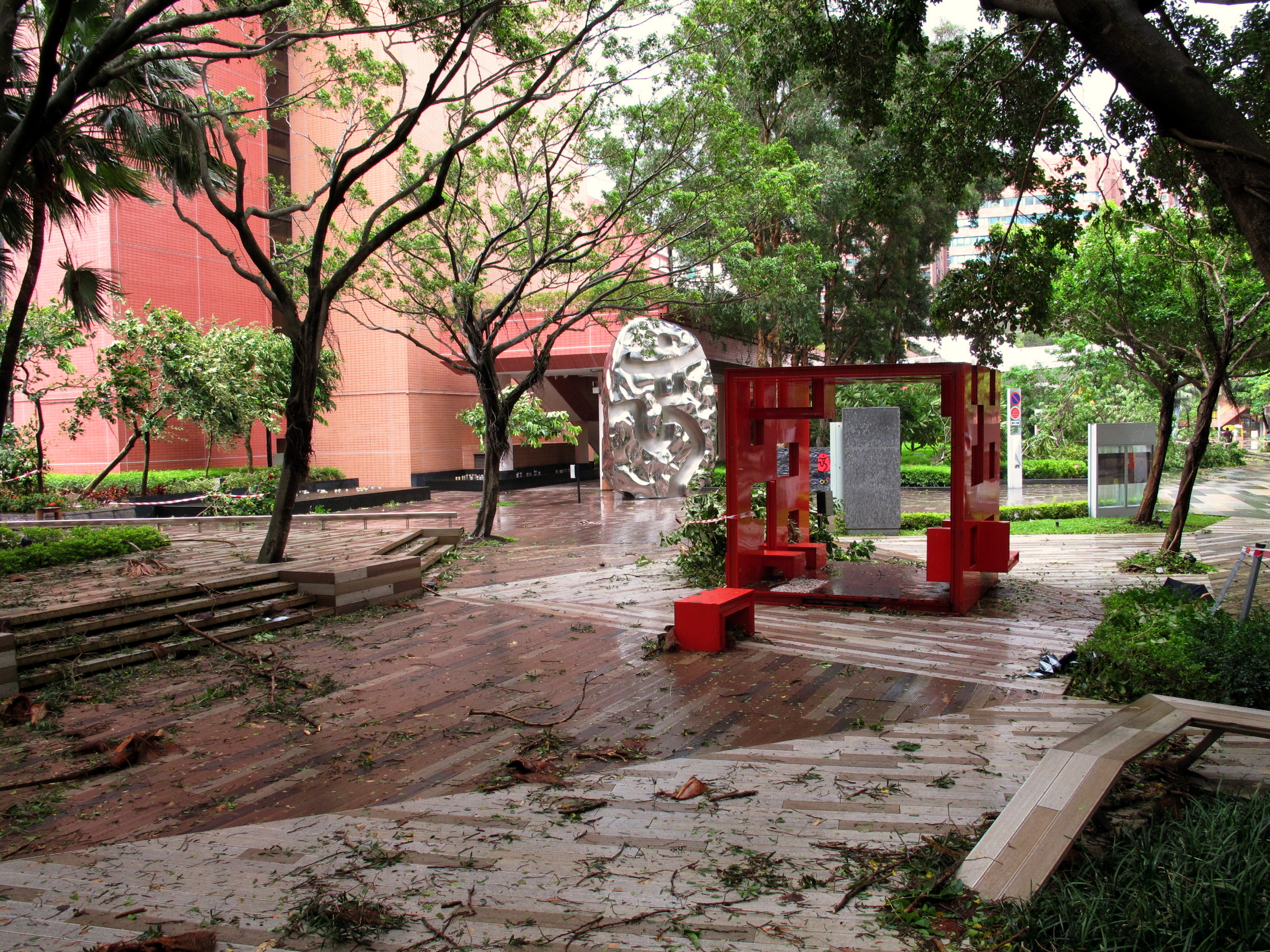 Shatin City Art Square after Typhoon Vicente